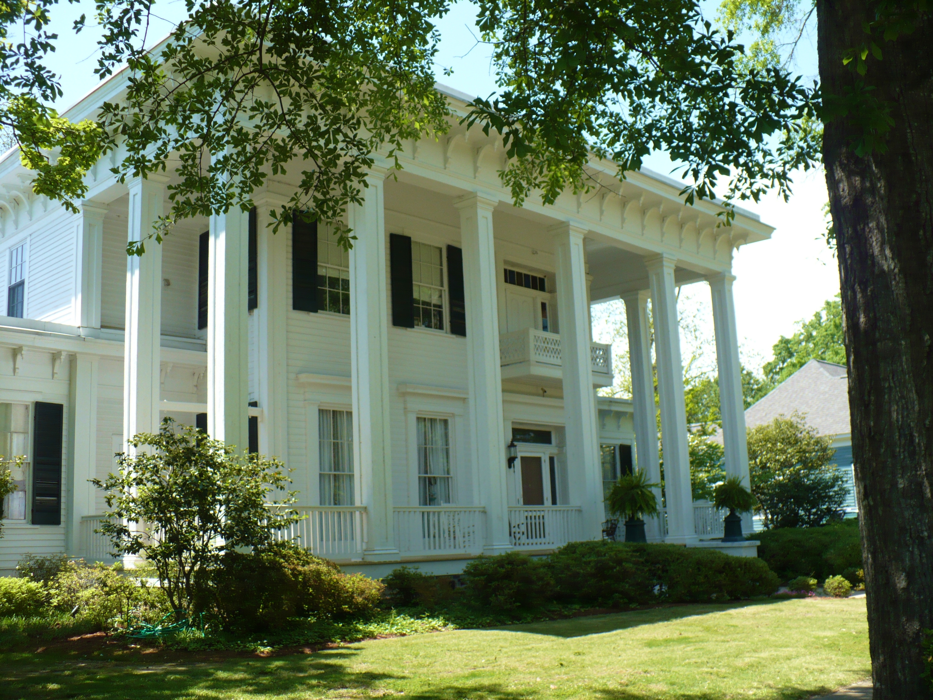 Colonnade in Columbus, Mississippi. Built circa 1860.